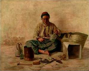 Lehimci (Ahmet Ziya Akbulut)